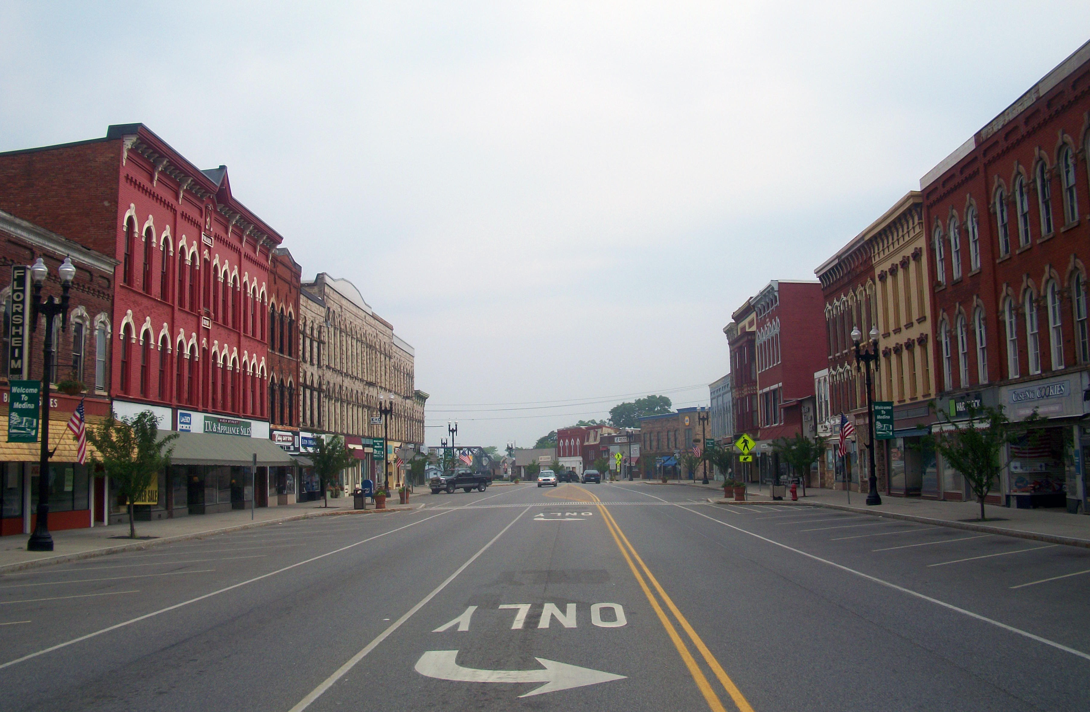 Looking north on Main Street in Medina, NY, USA